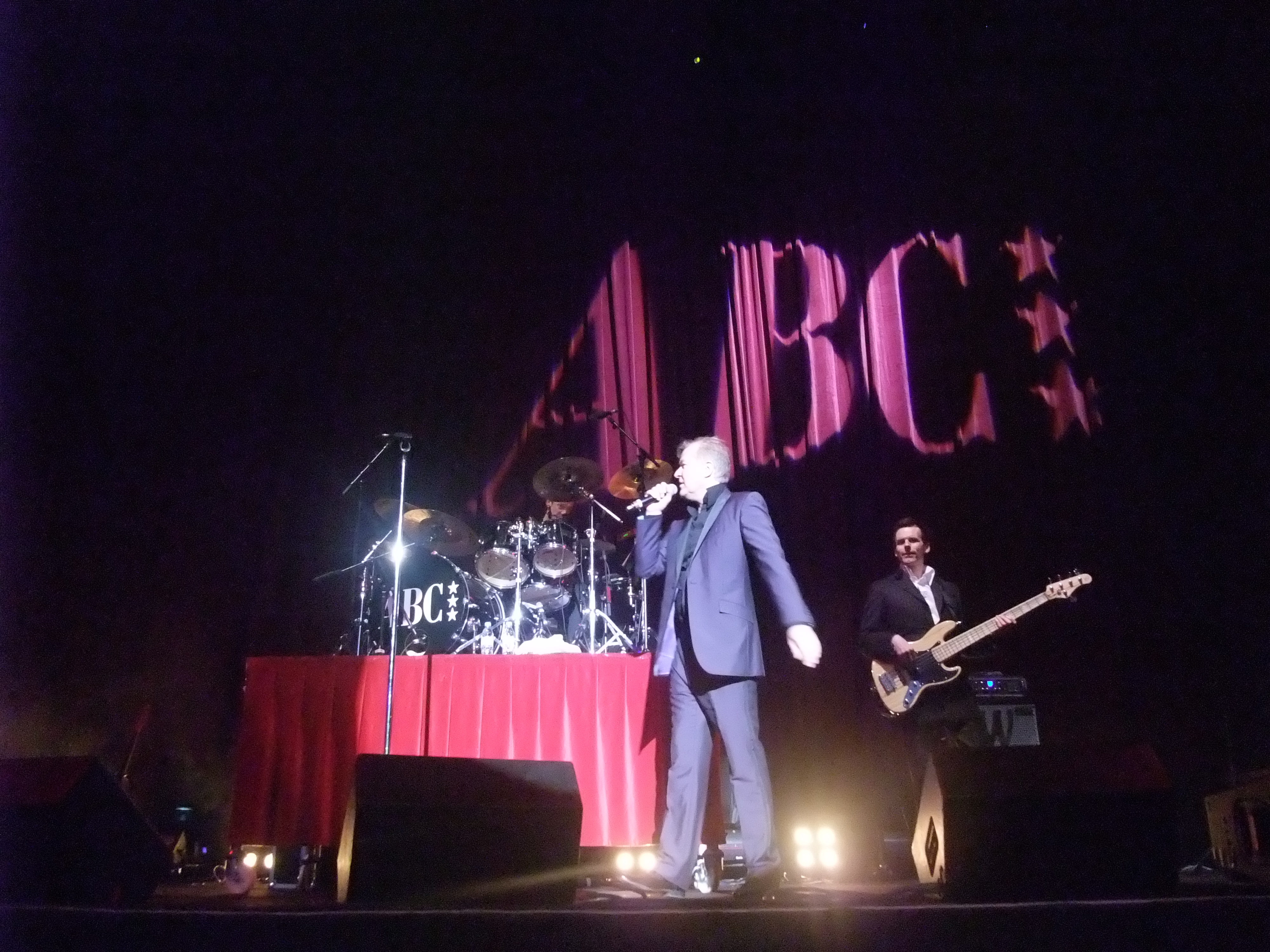 ABC (band) Live on Steel City Tour 2008